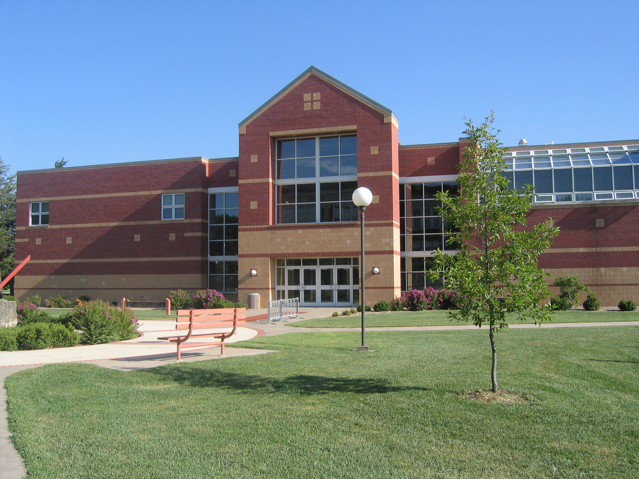 Solomon L. Loewen Natural Science Center, Tabor College, Hillsboro, Kansas, United States